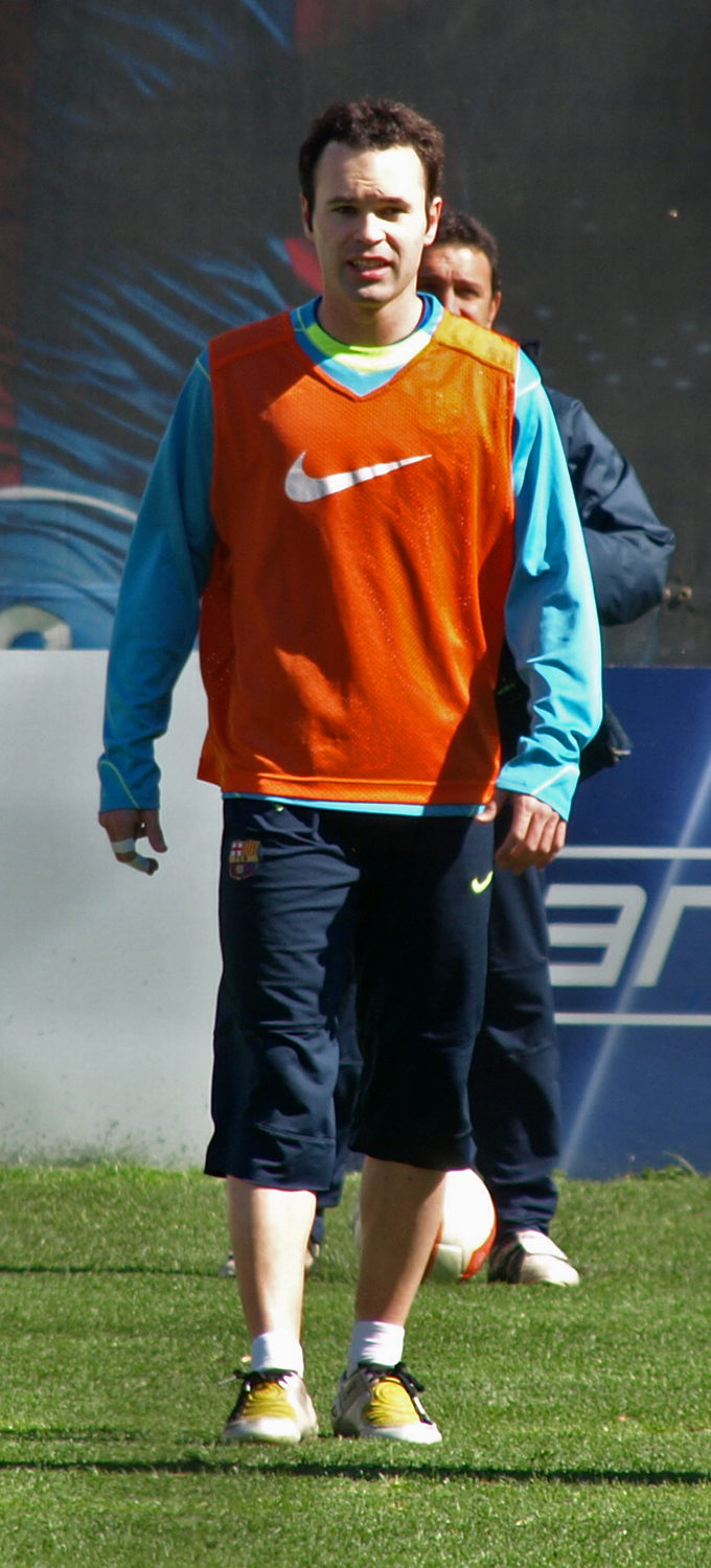 Andrés Iniesta (born 11 May 1984 in Fuentealbilla, Albacete) is a Spanish midfielder currently playing for FC Barcelona.